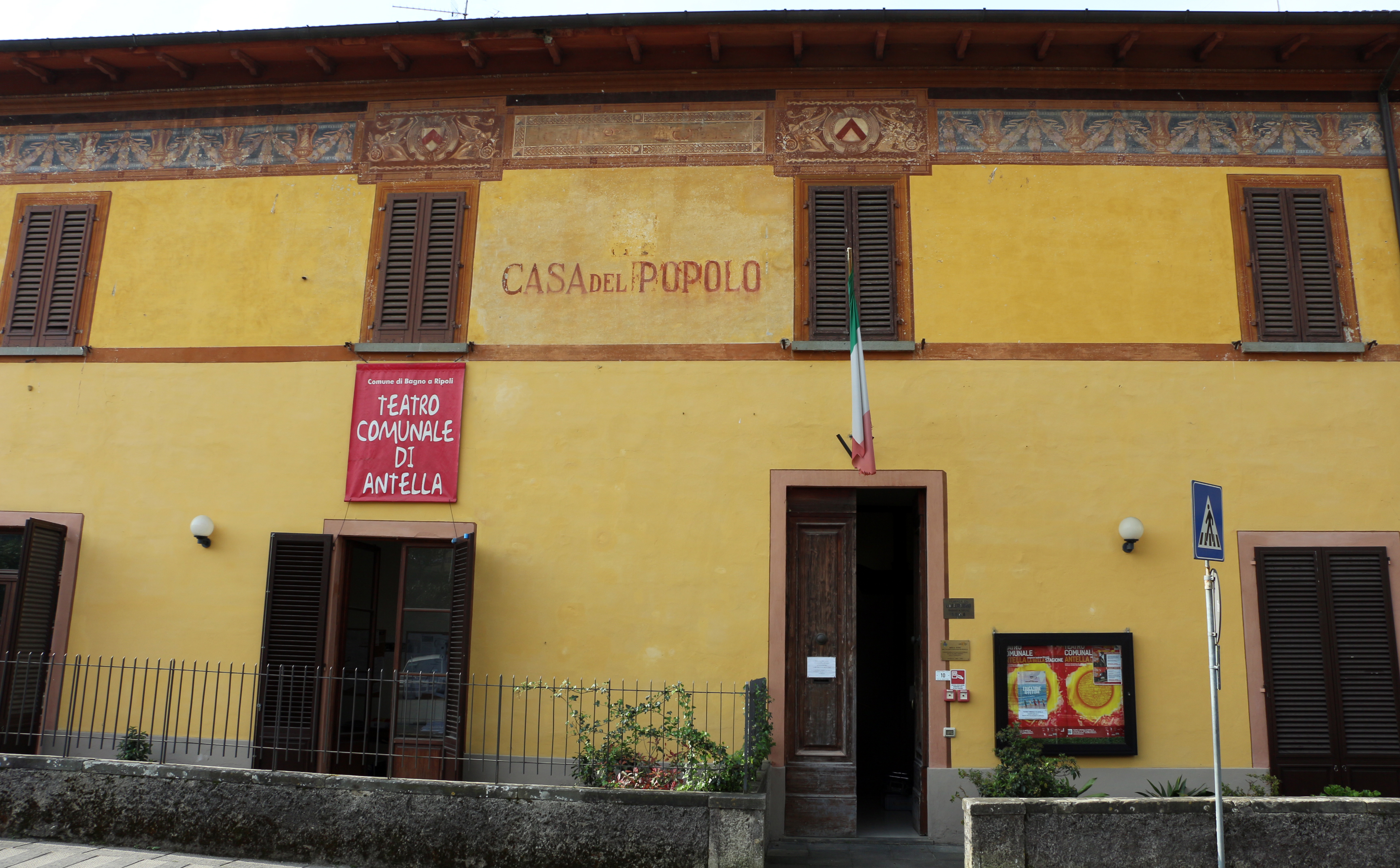 Antella (Bagno a Ripoli)